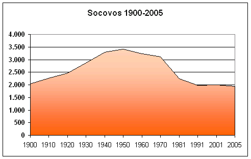 Socovos's population, Albacete, Spain, (1900-2005). Own work, given to PD.